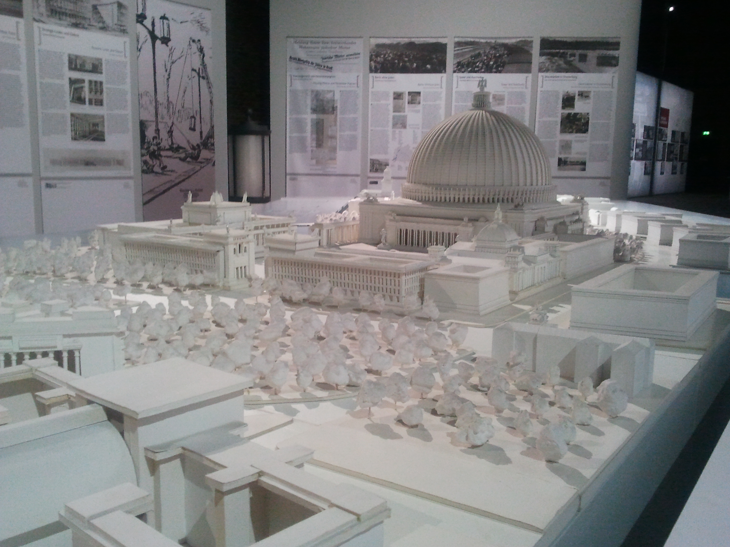 Model of the Große Halle (also called Ruhmeshalle or Volkshalle). The entire architectural model is composed of three parts resp. segments: The central part (from the triumphal arch to the Volkshalle) was built for the 2004 movie Downfall (Oliver Hirschbiegel) and is not a fully accurate realization of the Generalbauinspektor's plan. For the 2005 movie "Speer und Er" (Heinrich Breloer) the model was expanded with the significantly more precise southern and northern railway stations and its forecourts. Part of the Myth "Germania" and the "Temple City" of Nuremberg exhibition at the Documentation Center in Nuremberg (April 7, 2011 - September 11, 2011).